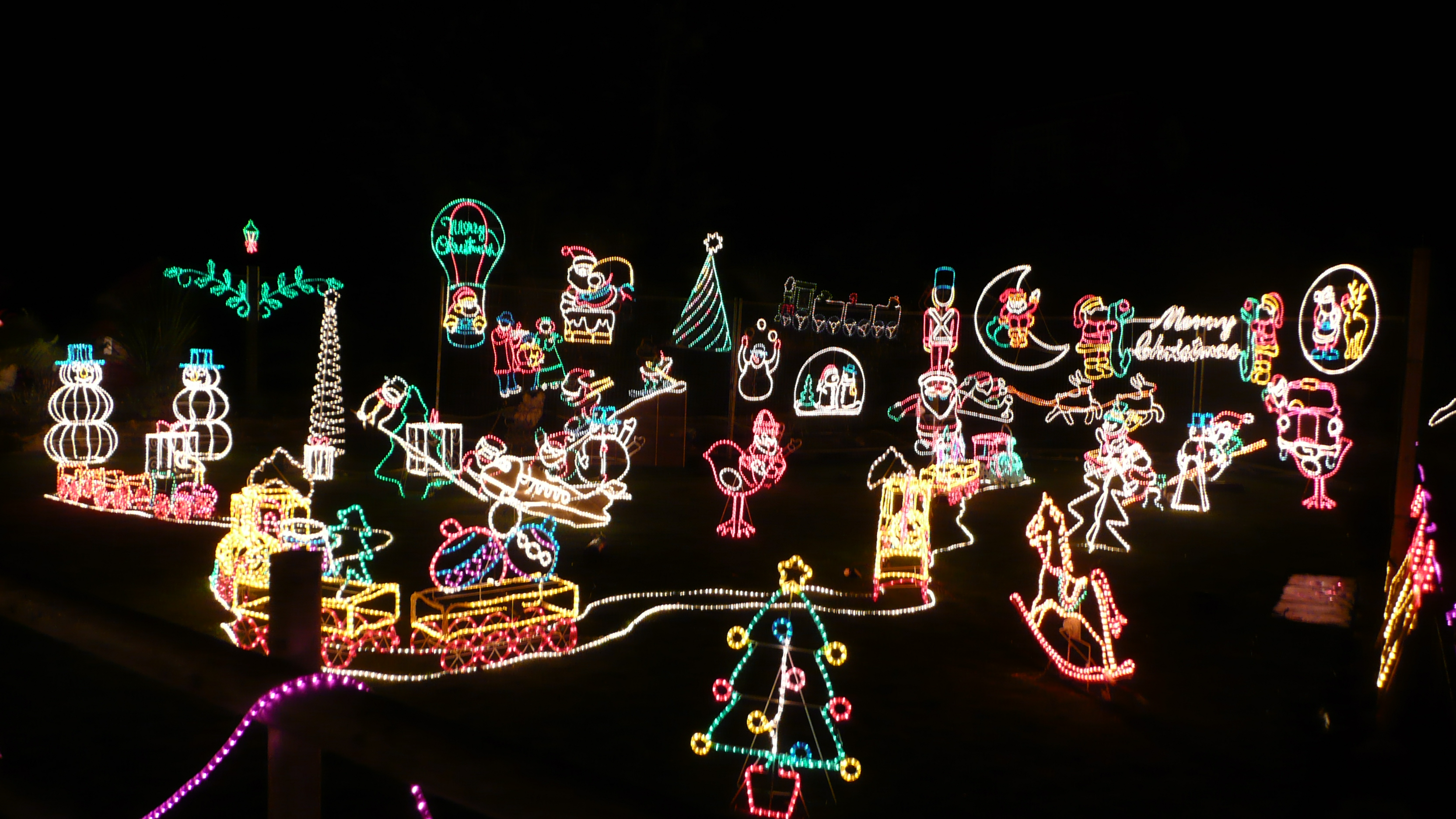 A view of the Christmas decorations at the Old World Tea Rooms in Godshill, Isle of Wight, as part of the Southern Vectis' Christmas Lights Tour run over the Christmas period.